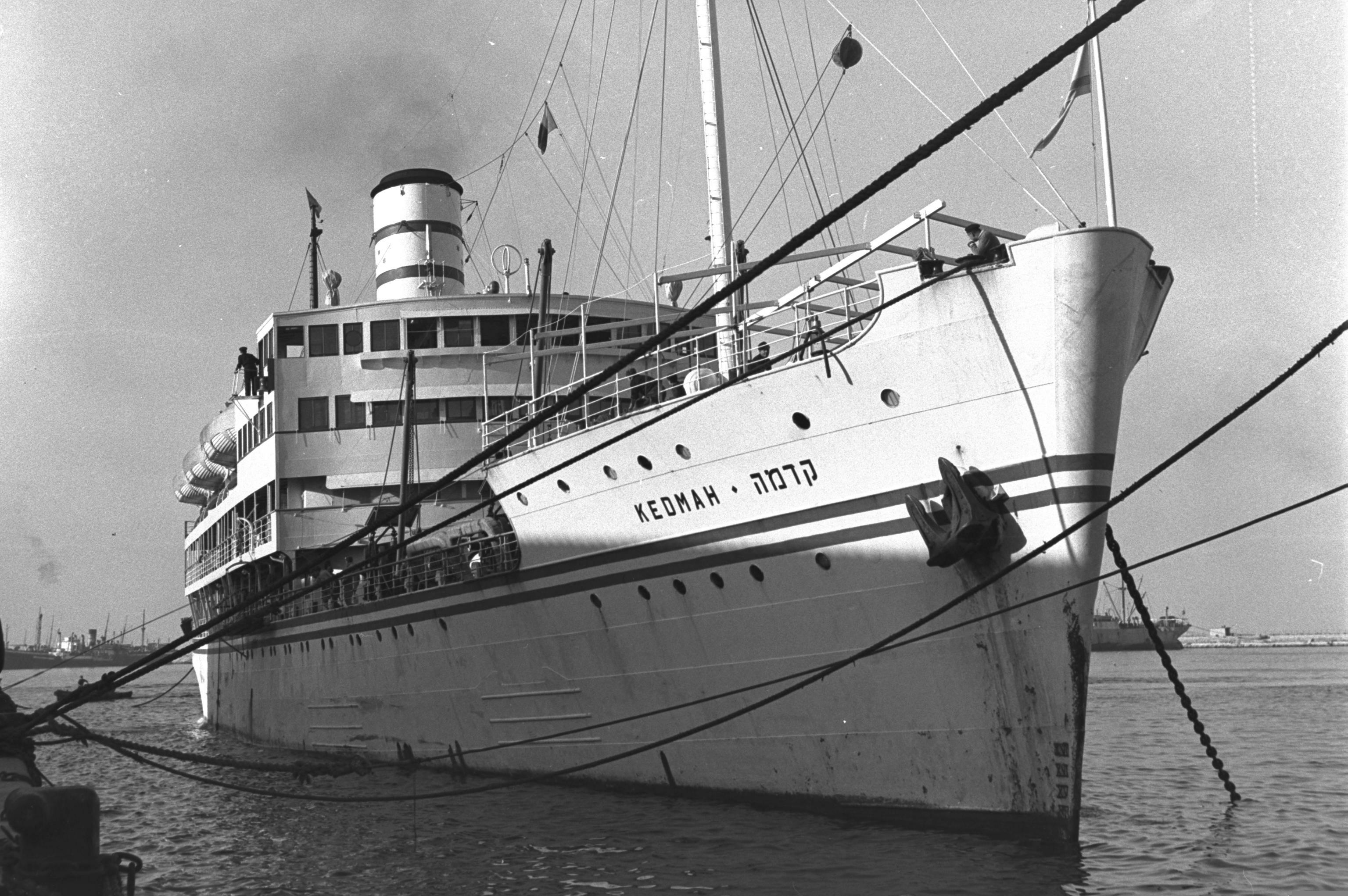 Israeli passenger ship Kedmah (ex. Kedah), built by Vickers - Barrow-in-Furness, UK, 1927 for Straits Steamship. Gross displacement 3,504 tn. Purchased by Zim in 1947. In 1952 sold to Harris & Dickson of London, and renamed Golden Isles. Retired 1955. Scrapped 1957.